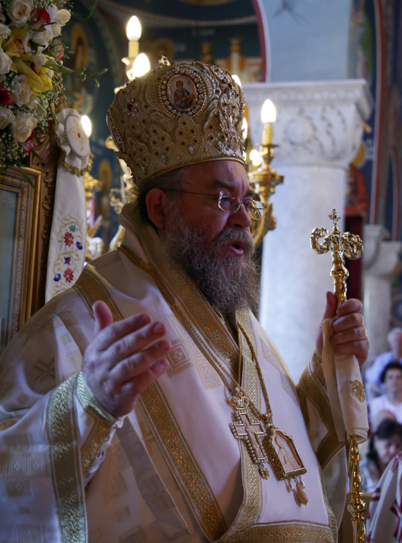 Metropolitan of Karthageni mr Meletios